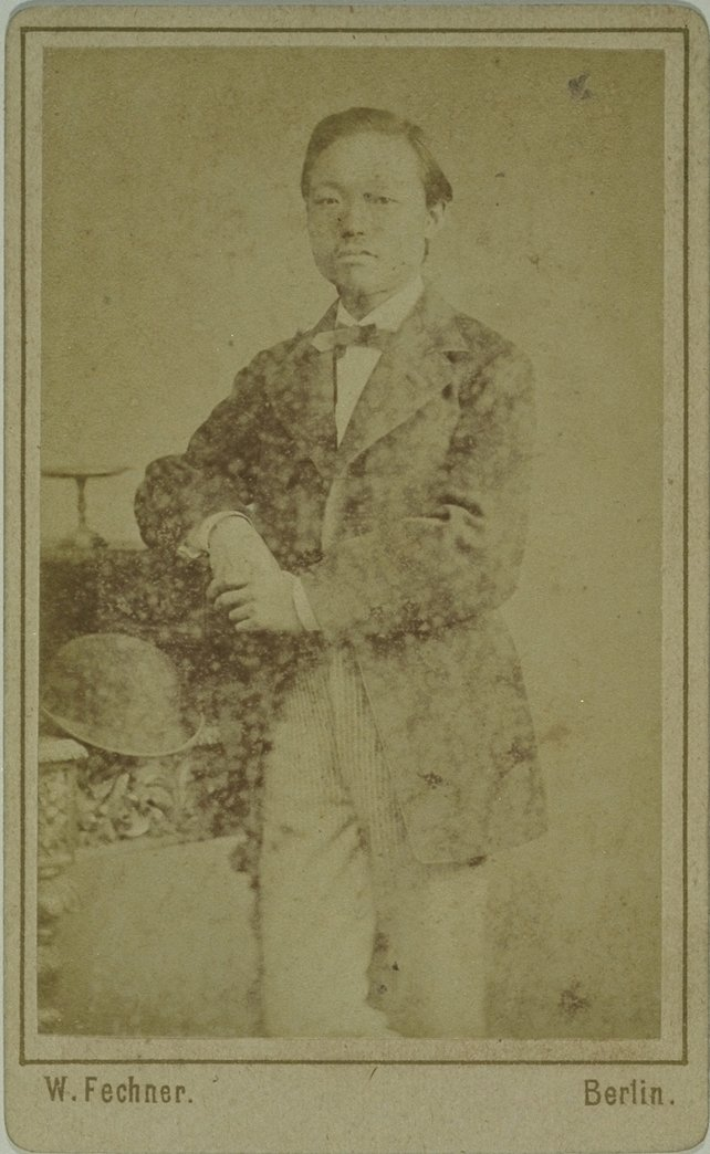 Sagara Motosada, younger brother of Sagara Chian, during his stay in Berlin (1870-74)